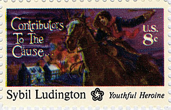 Sybil Ludington stamp, issued in 1975.